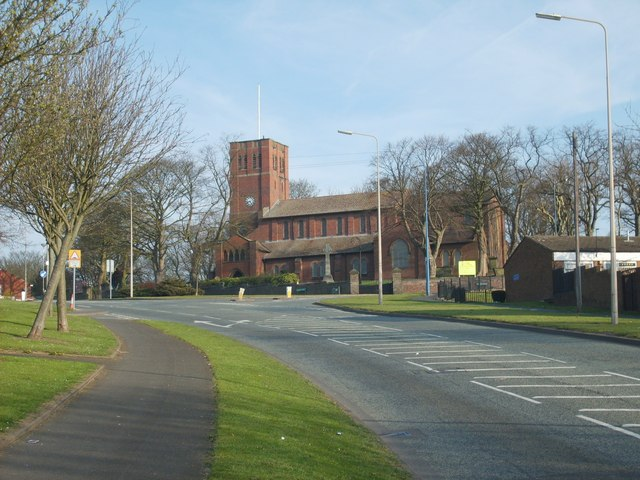 St. Giles The Parish Church of Rowley Regis from Hawes Lane.